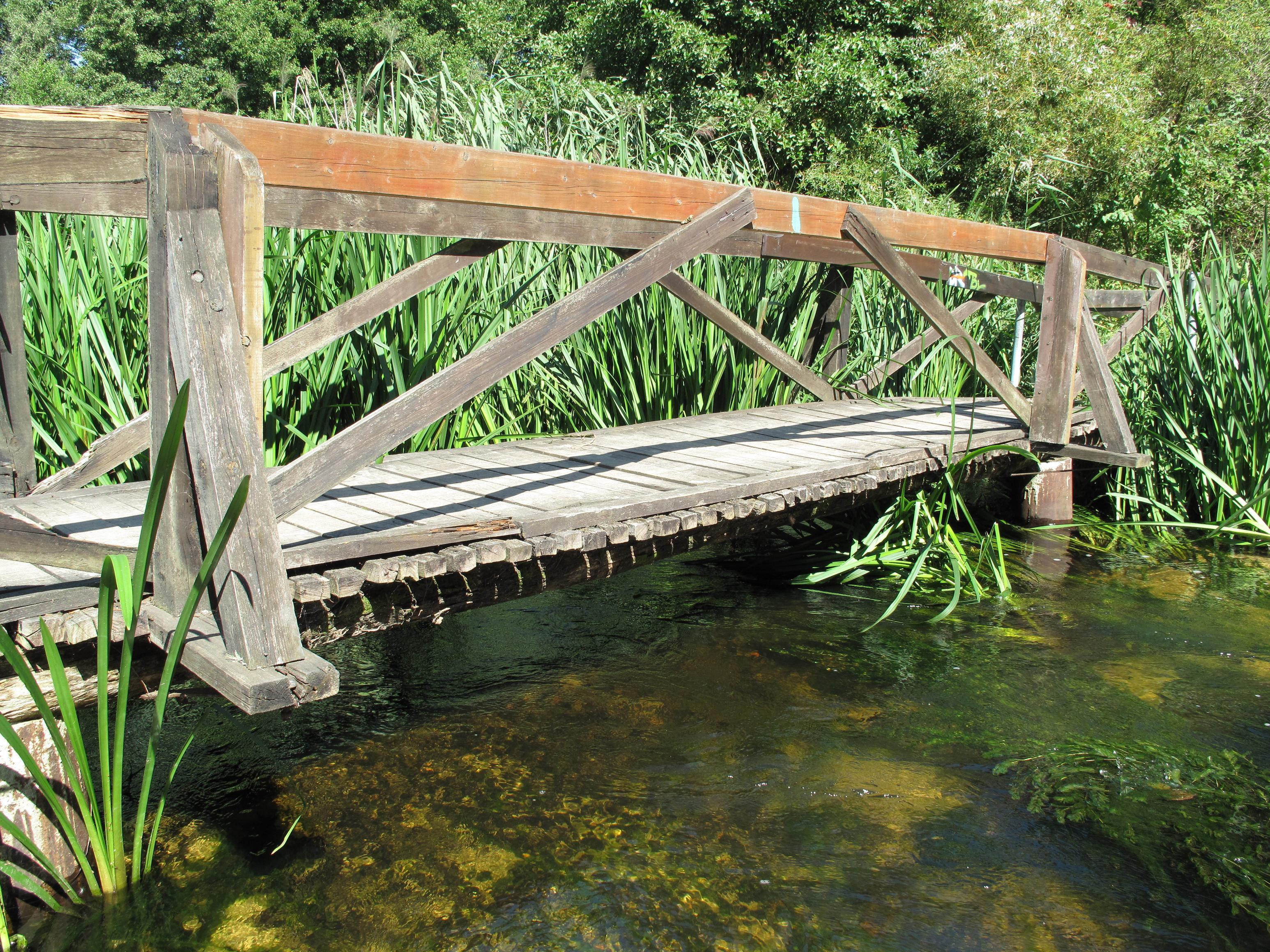 Footbridge of the circular path around the Große Müllroser See over the Schlaube. The Schlaube is a 20 kilometres long river in the Schlaube Valley Nature Park, District Oder-Spree, Brandenburg, Germany.